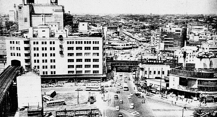 Shibuya in 1950s